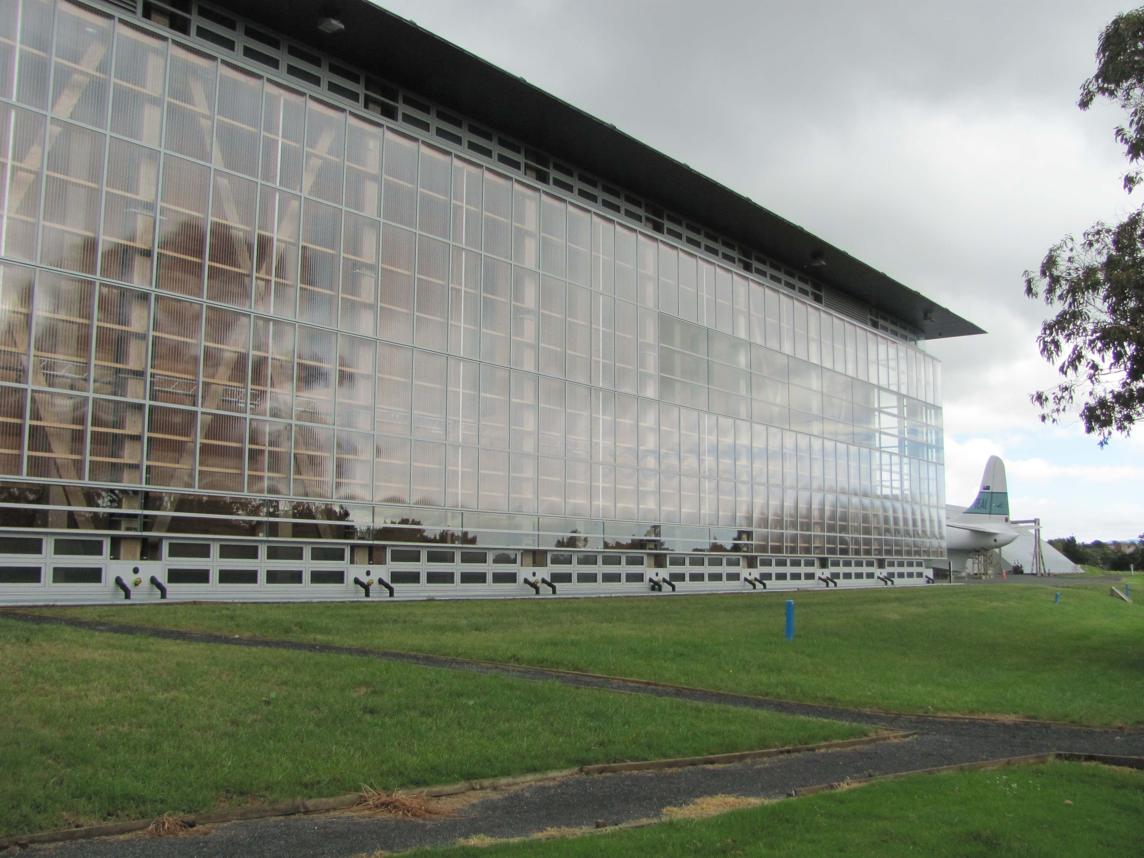 Exhibition hall on MOTAT 2